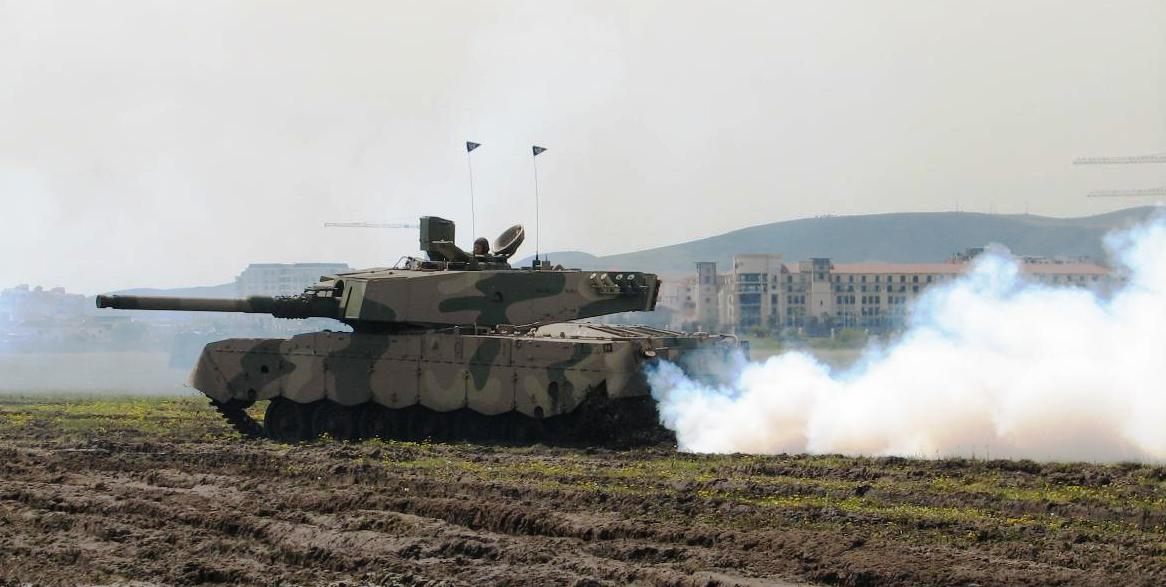 South African Olifant tank